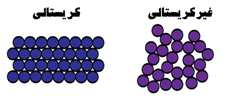 crystalvsnoncrystal